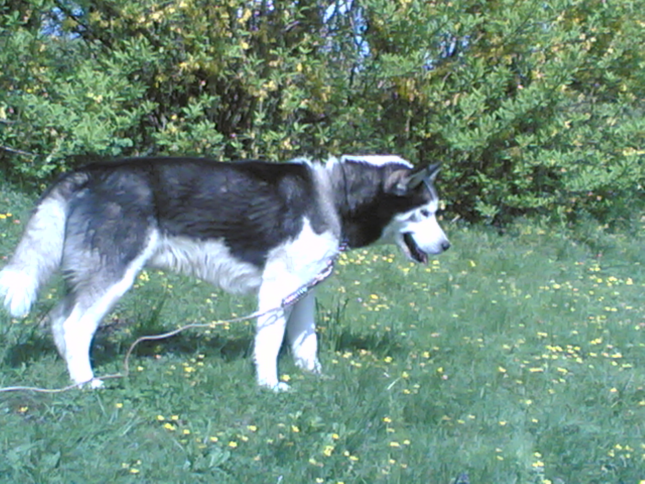 description: Siberian Husky photo taken by Darko Pes